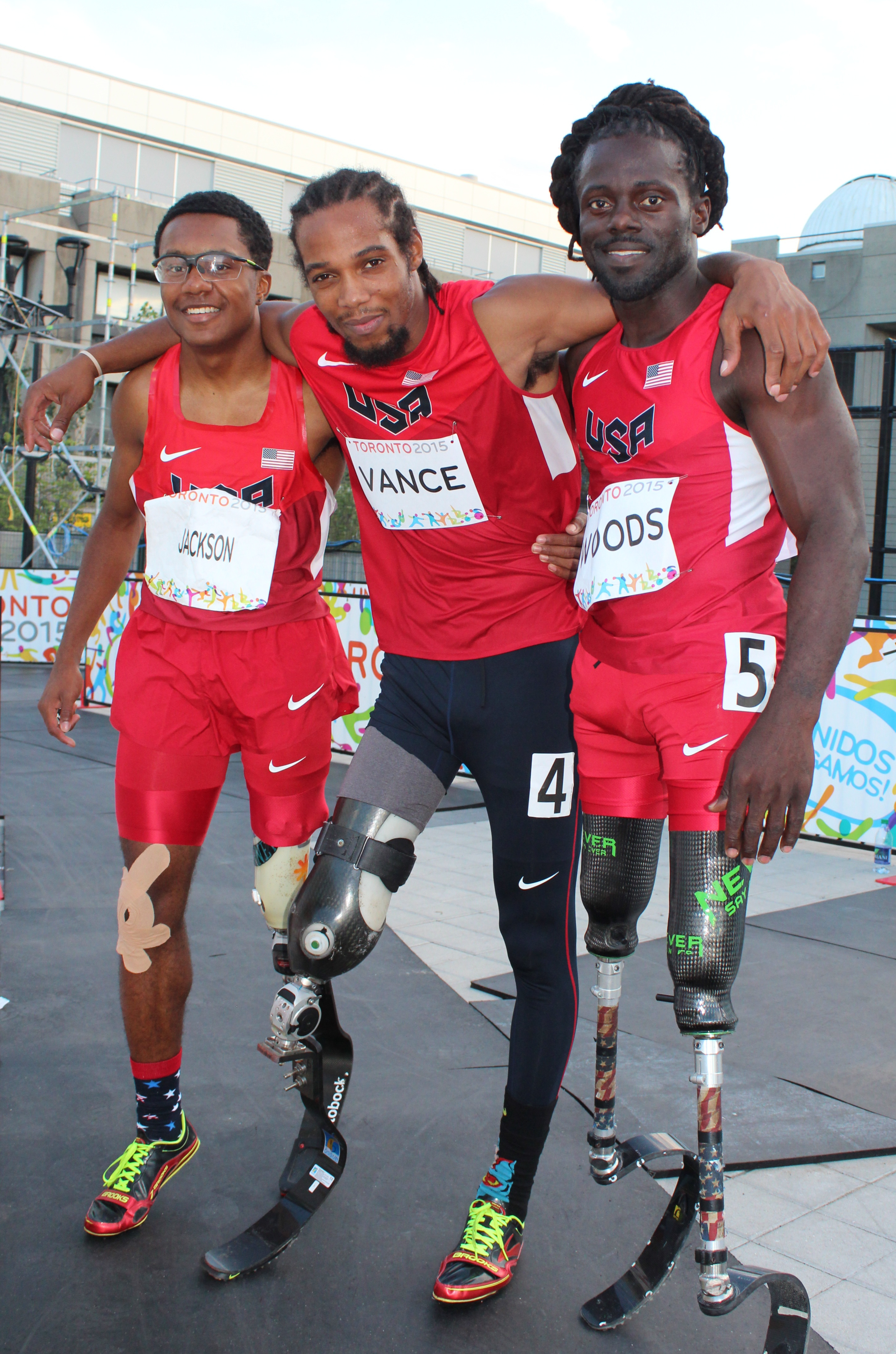 Shaquille Vance, Regas Woods, Desmond Jackson